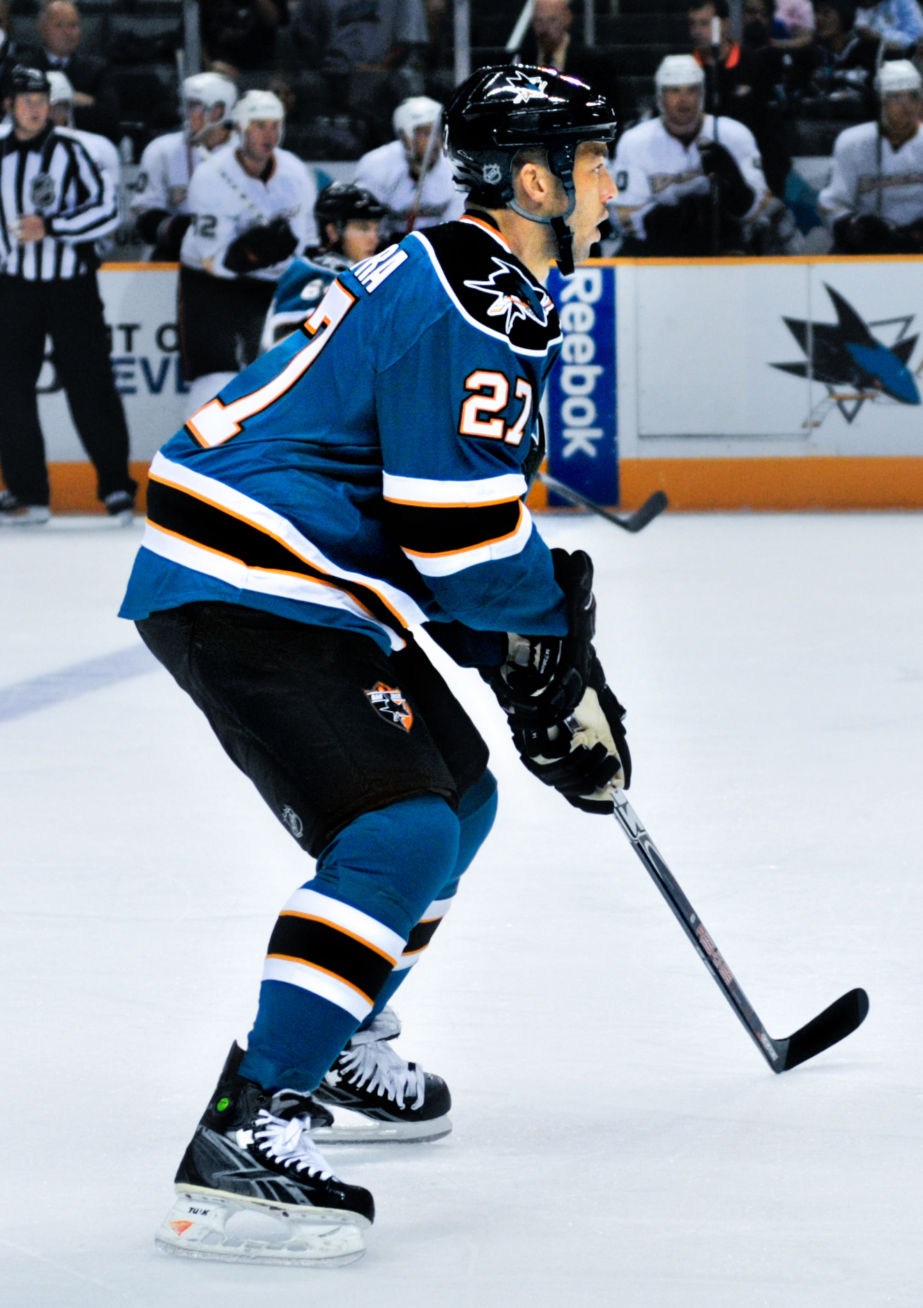 Manny Malhotra of San Jose Sharks